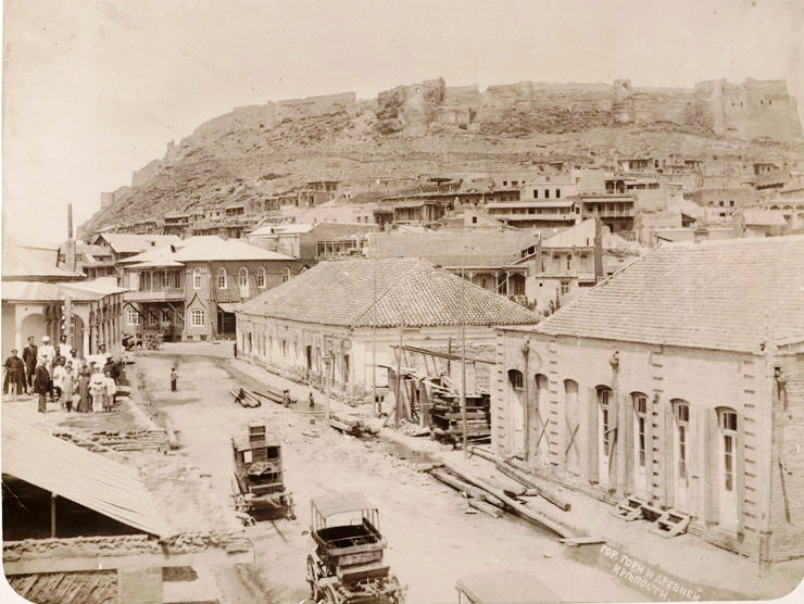 Ancient fortress in Gori.